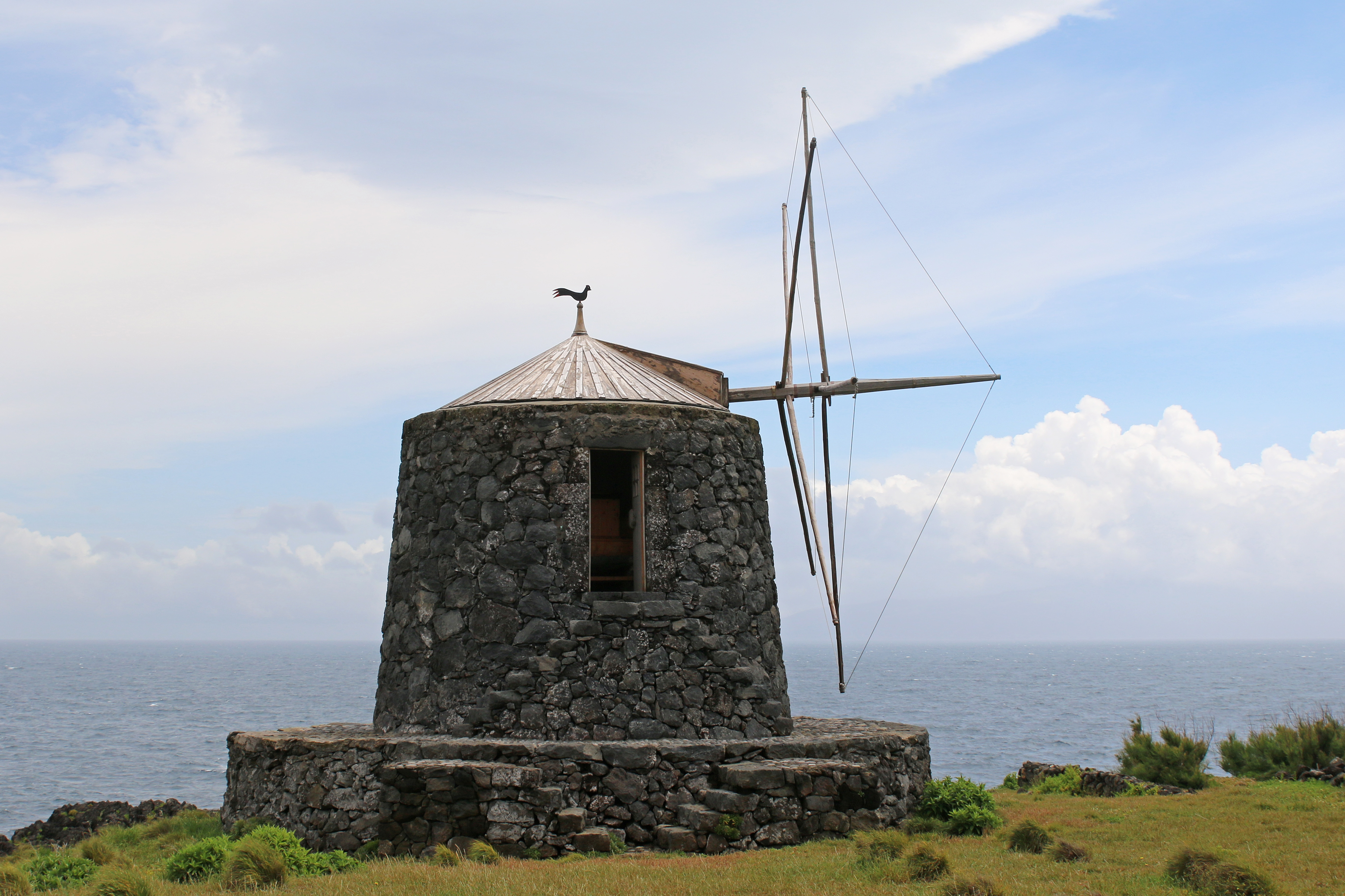 Windmill on the island Corvo, Azores